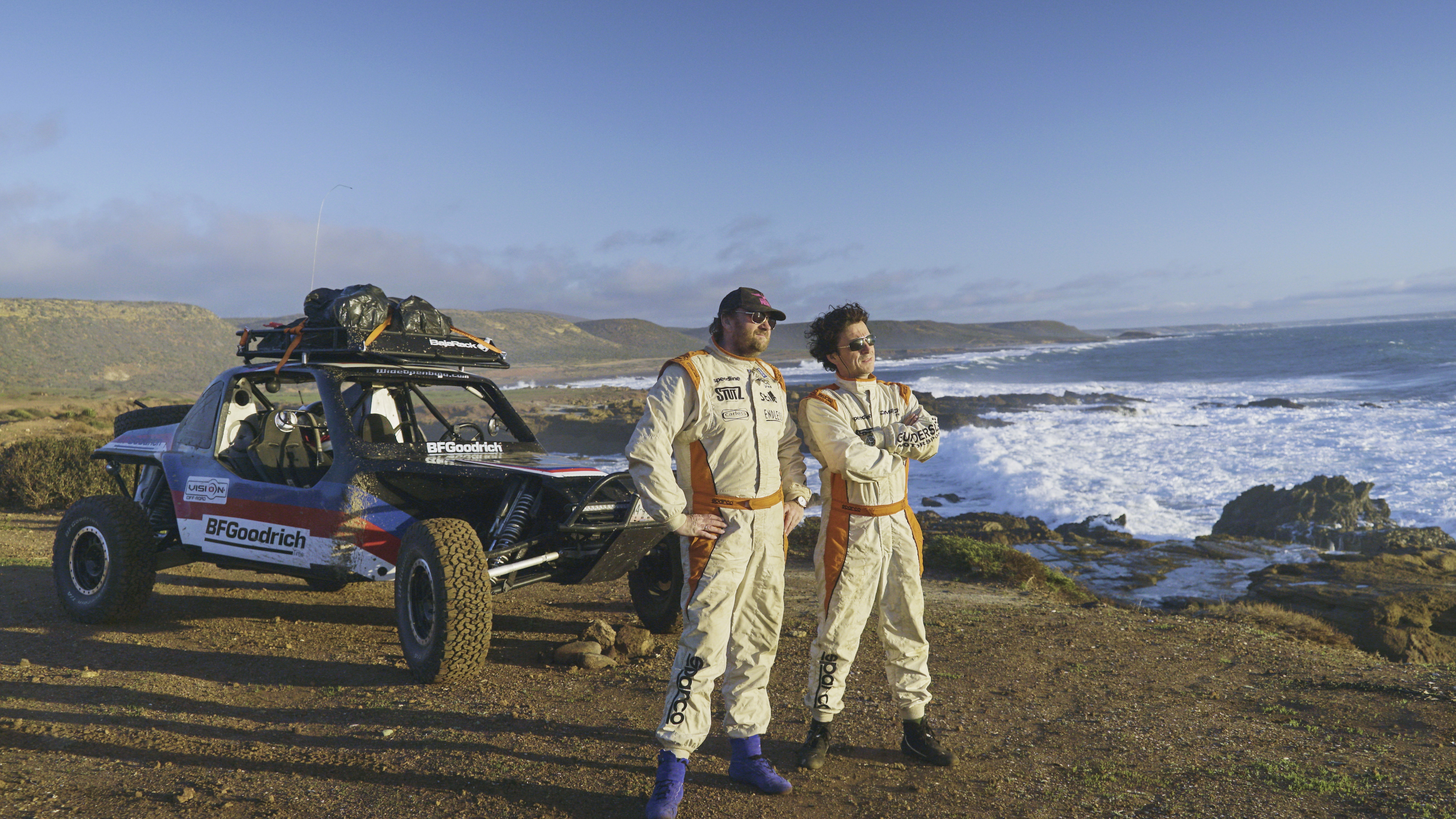 Nils & Ronny - Baja Coast